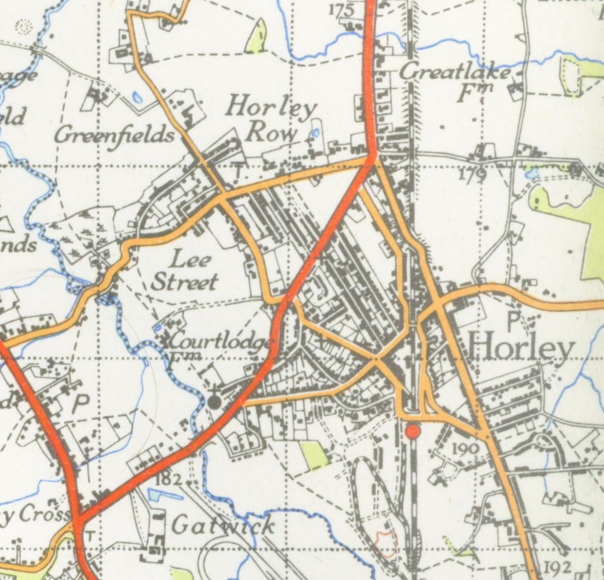 Map of Horley from 1946 scale 1 inch to the mile scanned at 600DPI